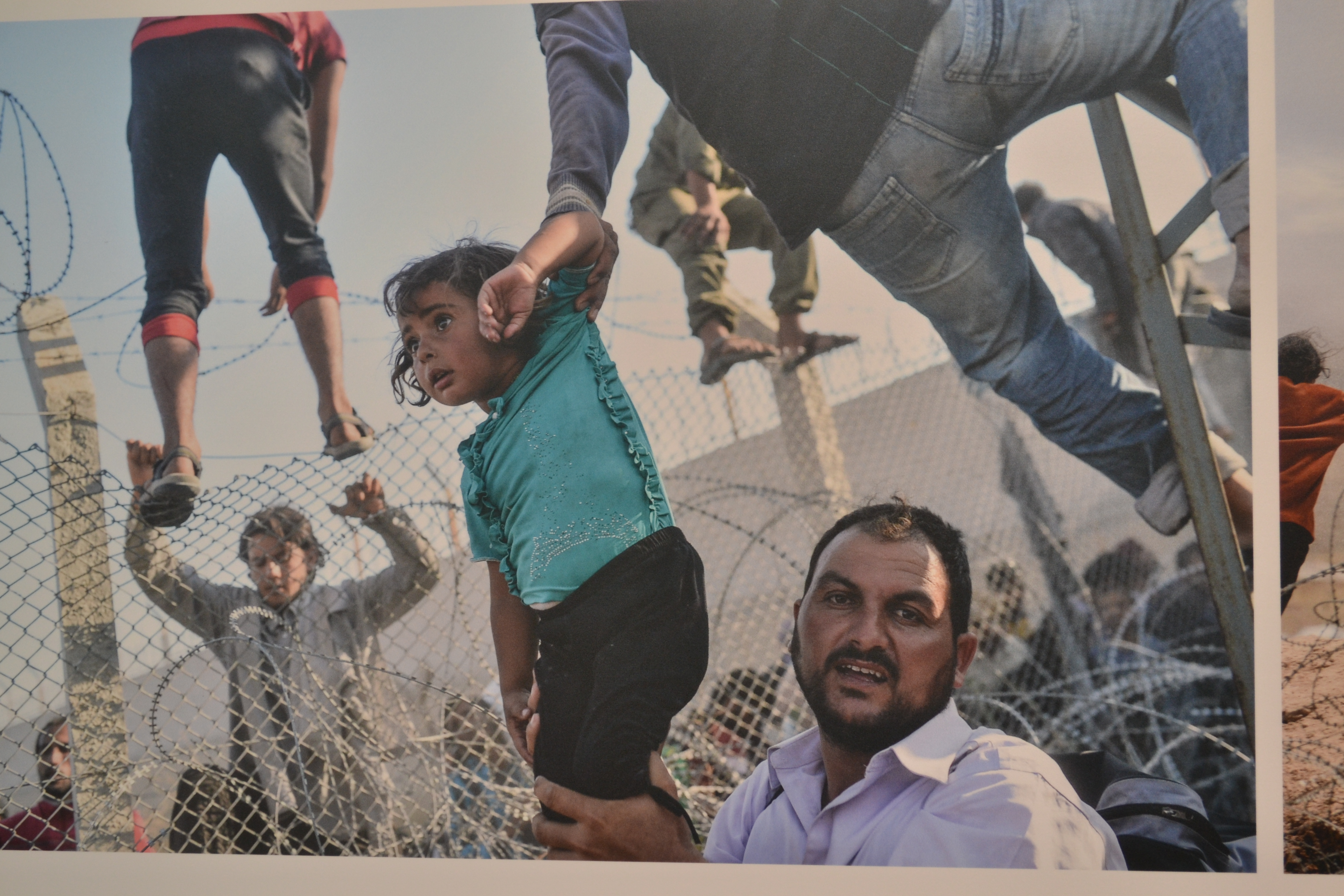 World Press Photo 2016 at The New Church-De Nieuwe Kerk-Dam in Amsterdam.Holland